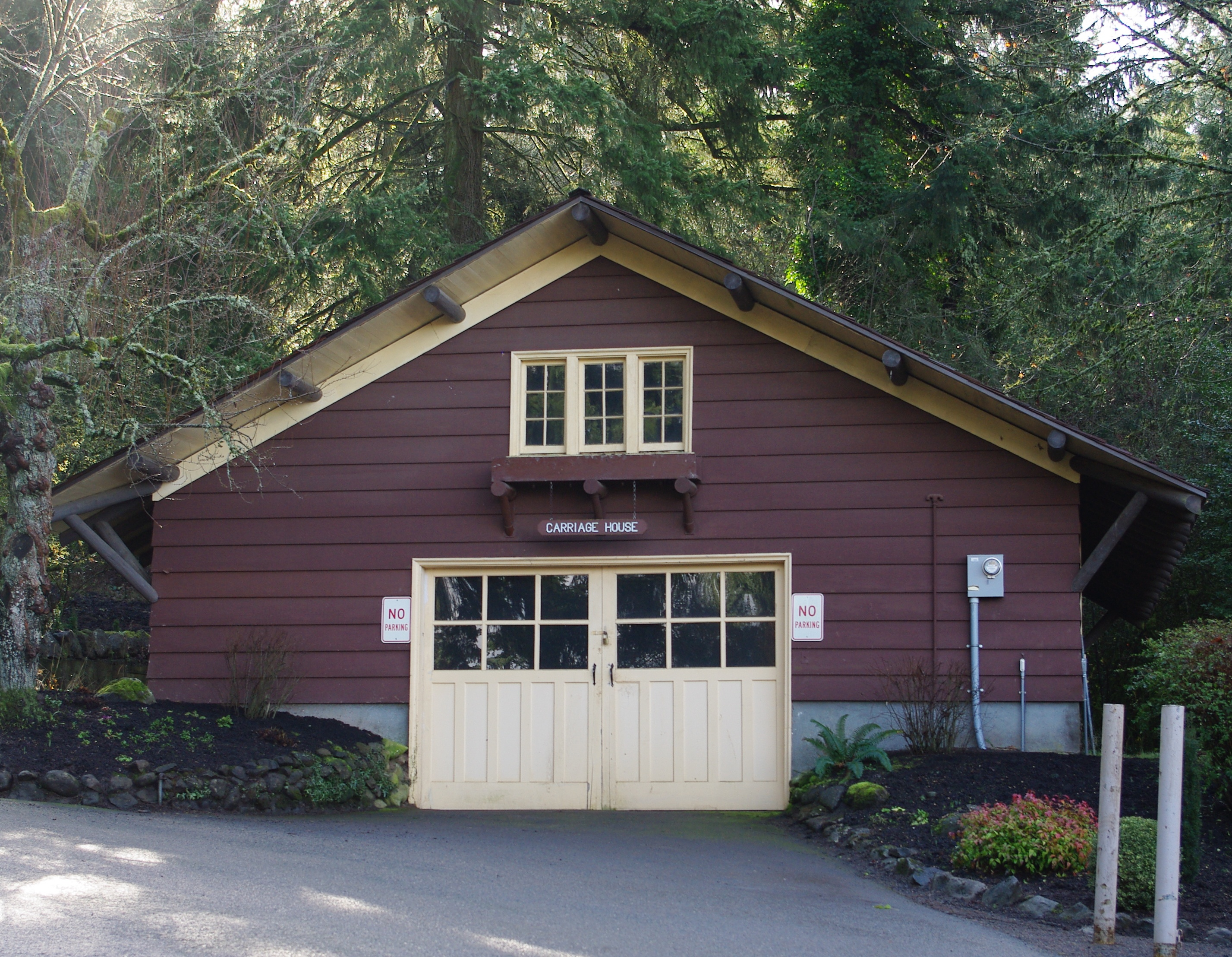 Former carriage house at the Jenkins Estate in Aloha, Oregon.